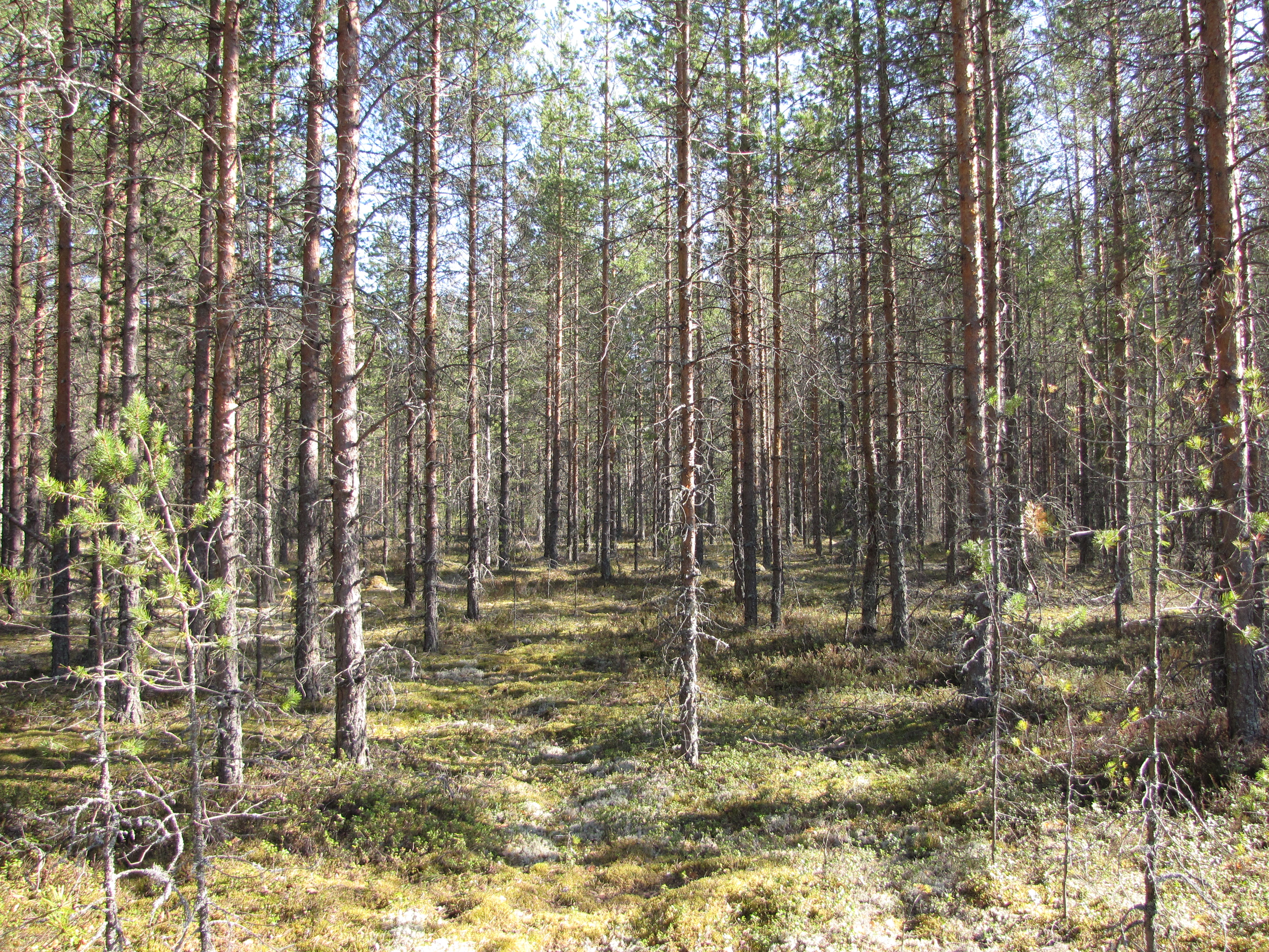 Forest in Pohjankangas, Kauhaneva–Pohjankangas National Park, Finland.